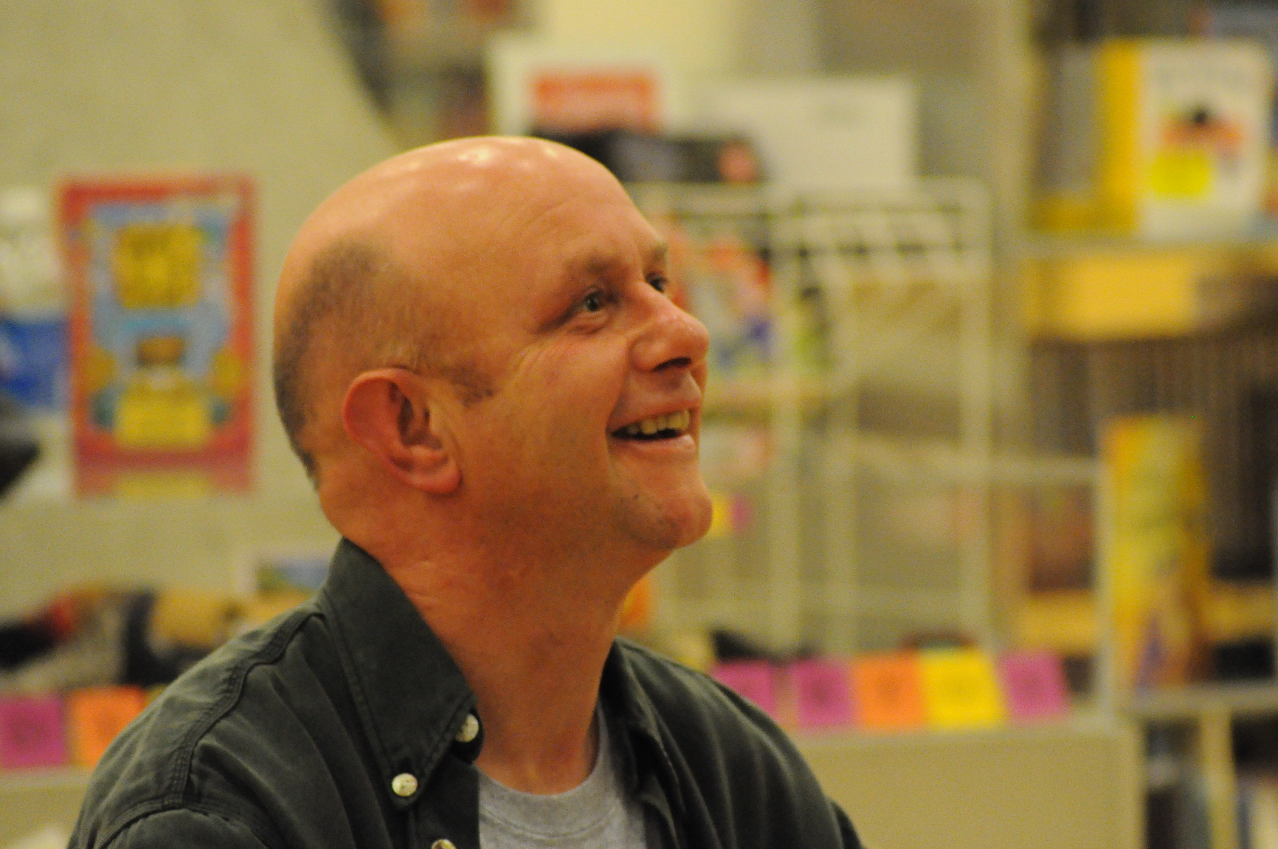 Nick Hornby signing books at Central Library, Seattle, Washington.